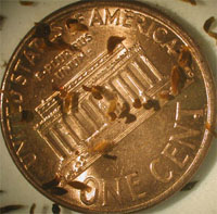 A picture of the marine acoel Convoluta convoluta taken under a dissecting scope with an American Penny for scale.